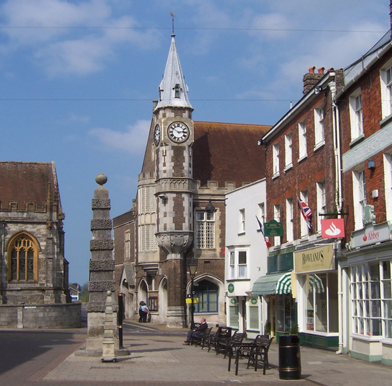 The Town Pump monument and the Corn Exchange municipal building with the clock tower in Dorchester, Dorset, England.